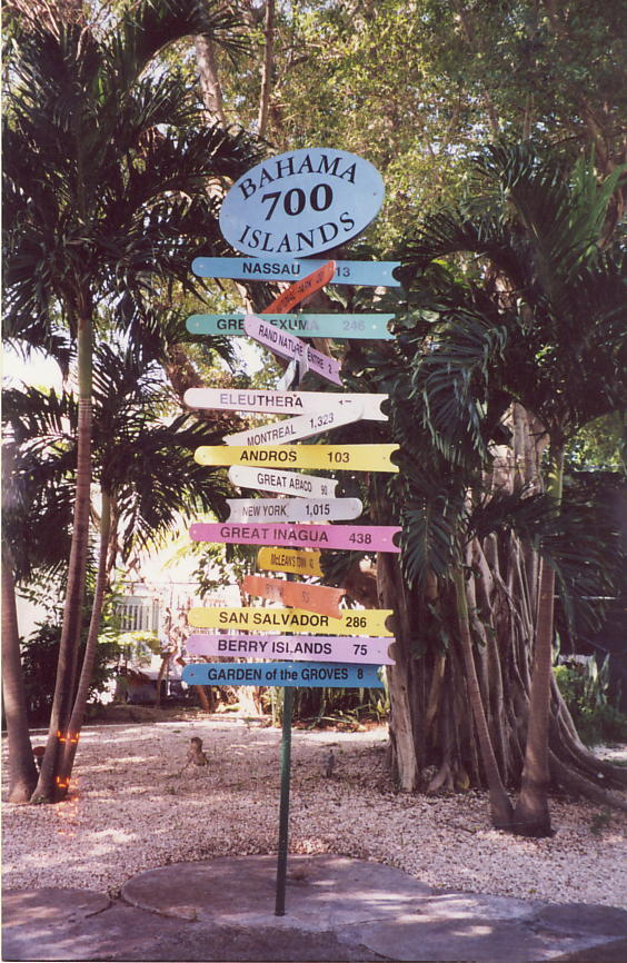 Direction sign at Lucaya, Bahamas